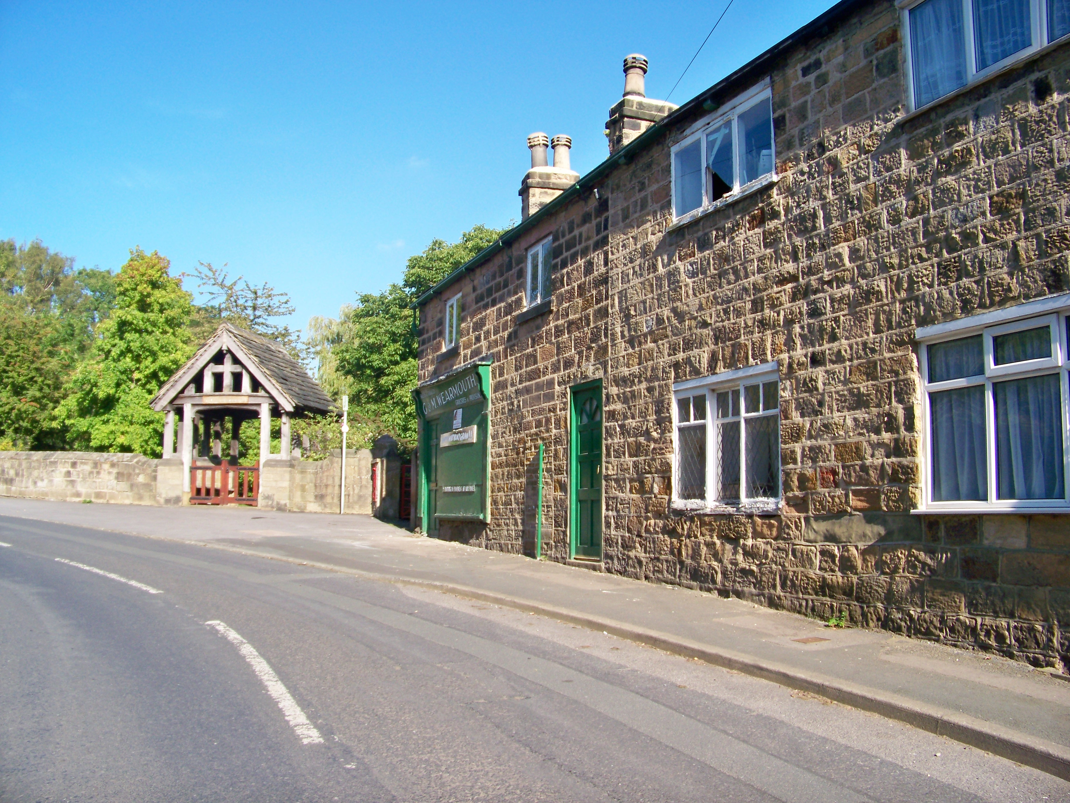 Church Lane, Bardsey, West Yorkshire. Taken on the aftrenoon of Thursday 10th September 2009.